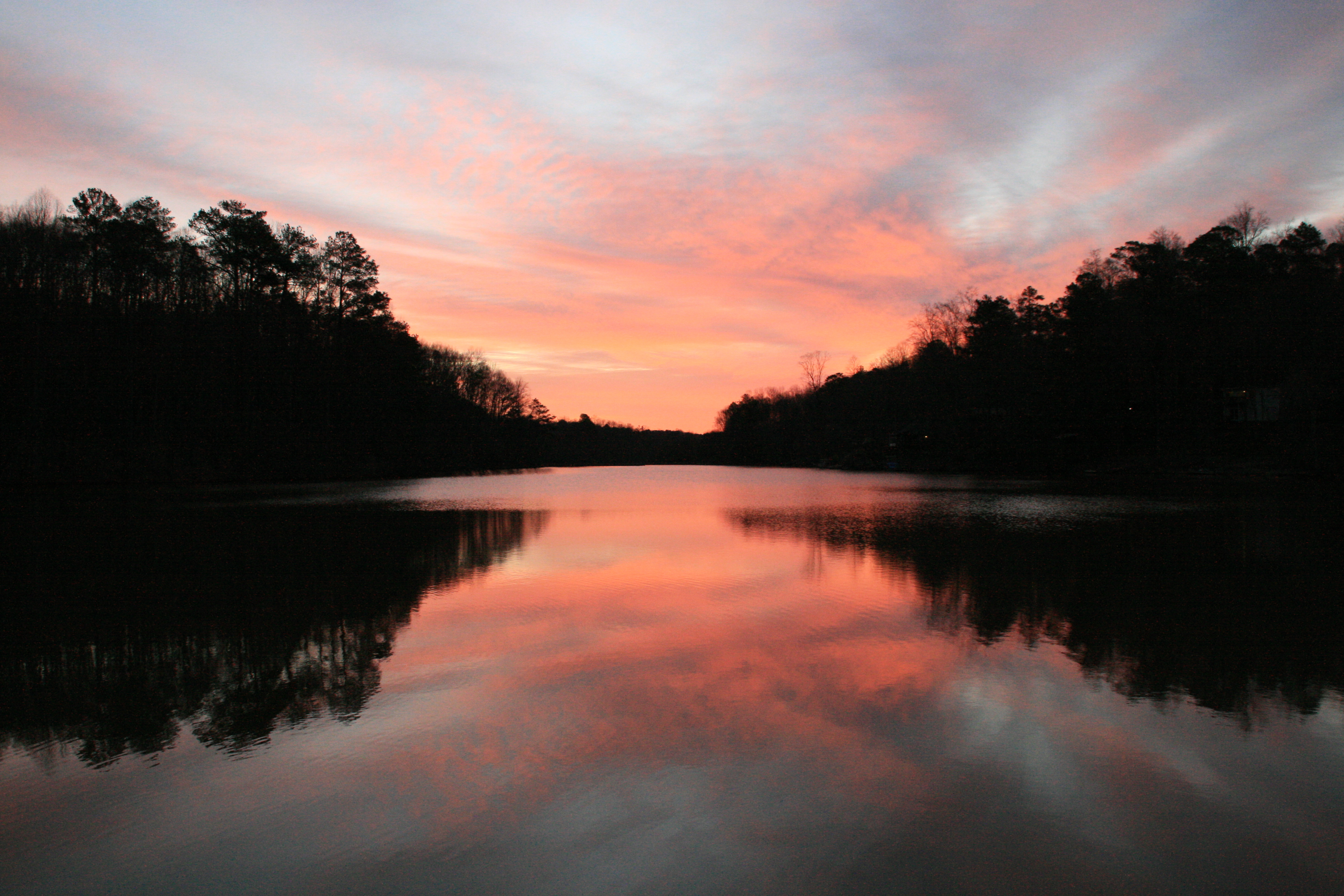 On my way into work this morning, the color of the sunrise was awesome. I hung a left and cut through Mountain Park to catch some of the color. There was more red just a few minutes before, but I'm pretty happy with what I got.